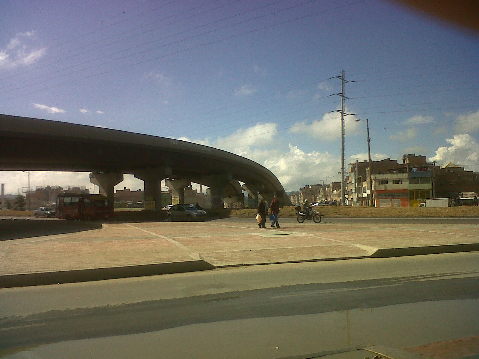 Terreros Avenue's Point in Soacha